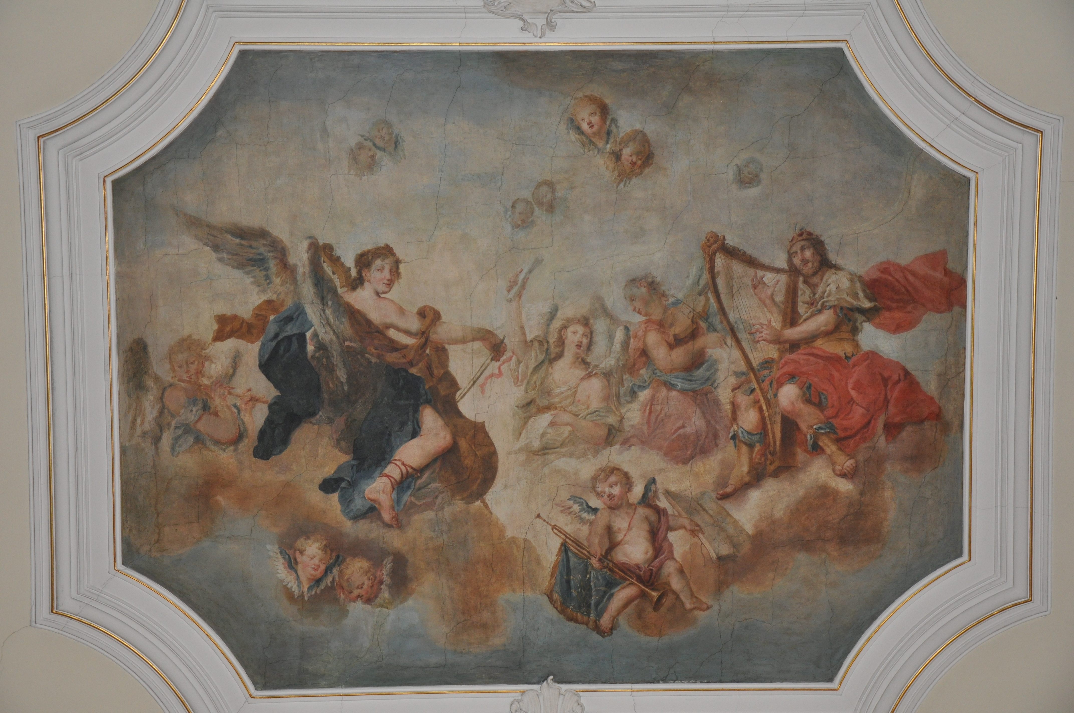 Laurentiuskirche (Dirmstein) Dirmstein